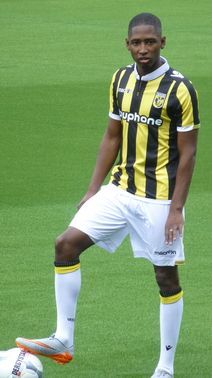 Kelvin Leerdam at the Papendal training grounds of Vitesse on 28 June 2015